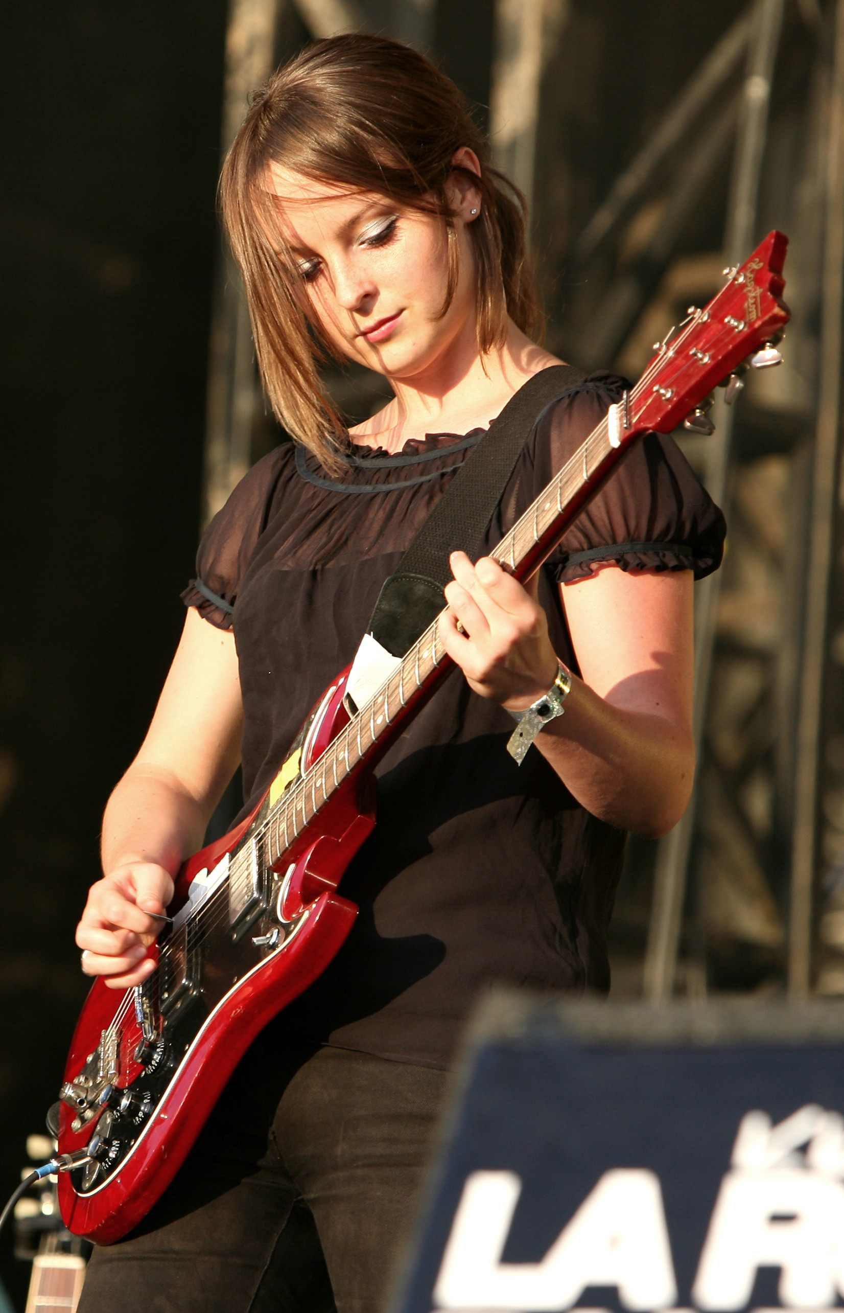 Mia Clarke of Electrelane at Route du Rock, August 2007